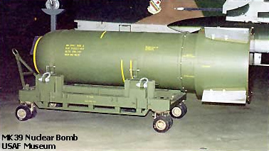 MK39 nuclear bomb